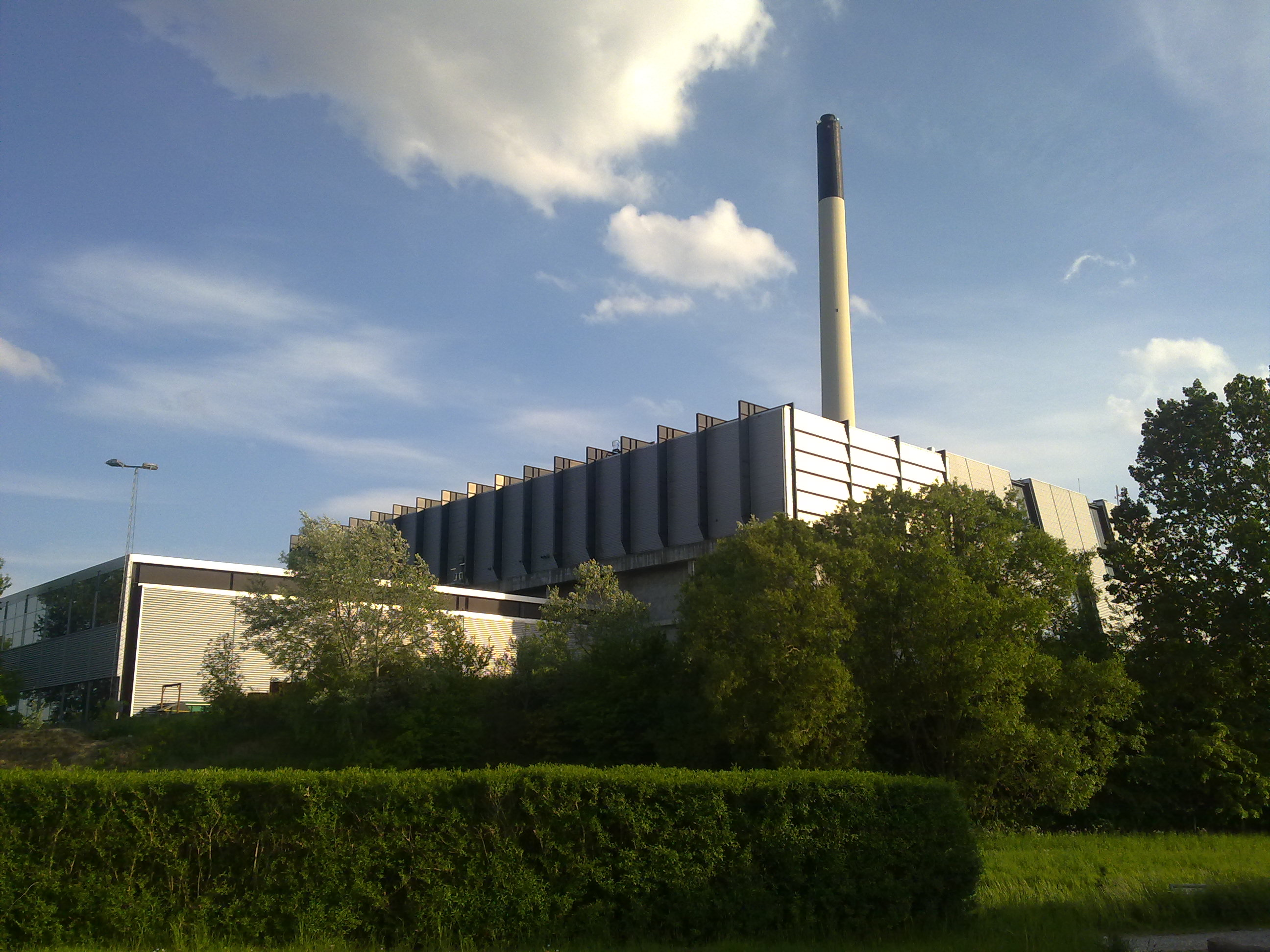 I/S Vestforbrænding, a communal garbage combustion facility and a thermal power plant. Western Copenhagen (Ejby).